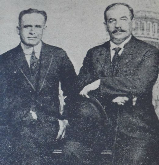 Armenia Ambassador to United States Armen Garo with the United States ambassador.